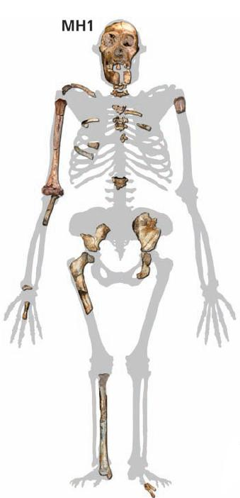 The Holotype of Australopithecus sediba, circa 2010. image created by Peter Schmid. Courtesy of Lee R. Berger